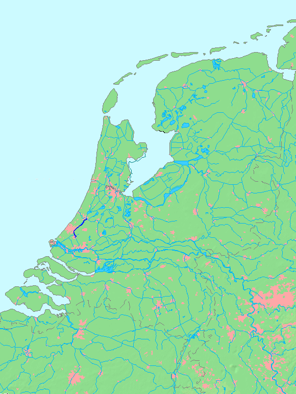 Location of a waterway (river/canal) in the Netherlends